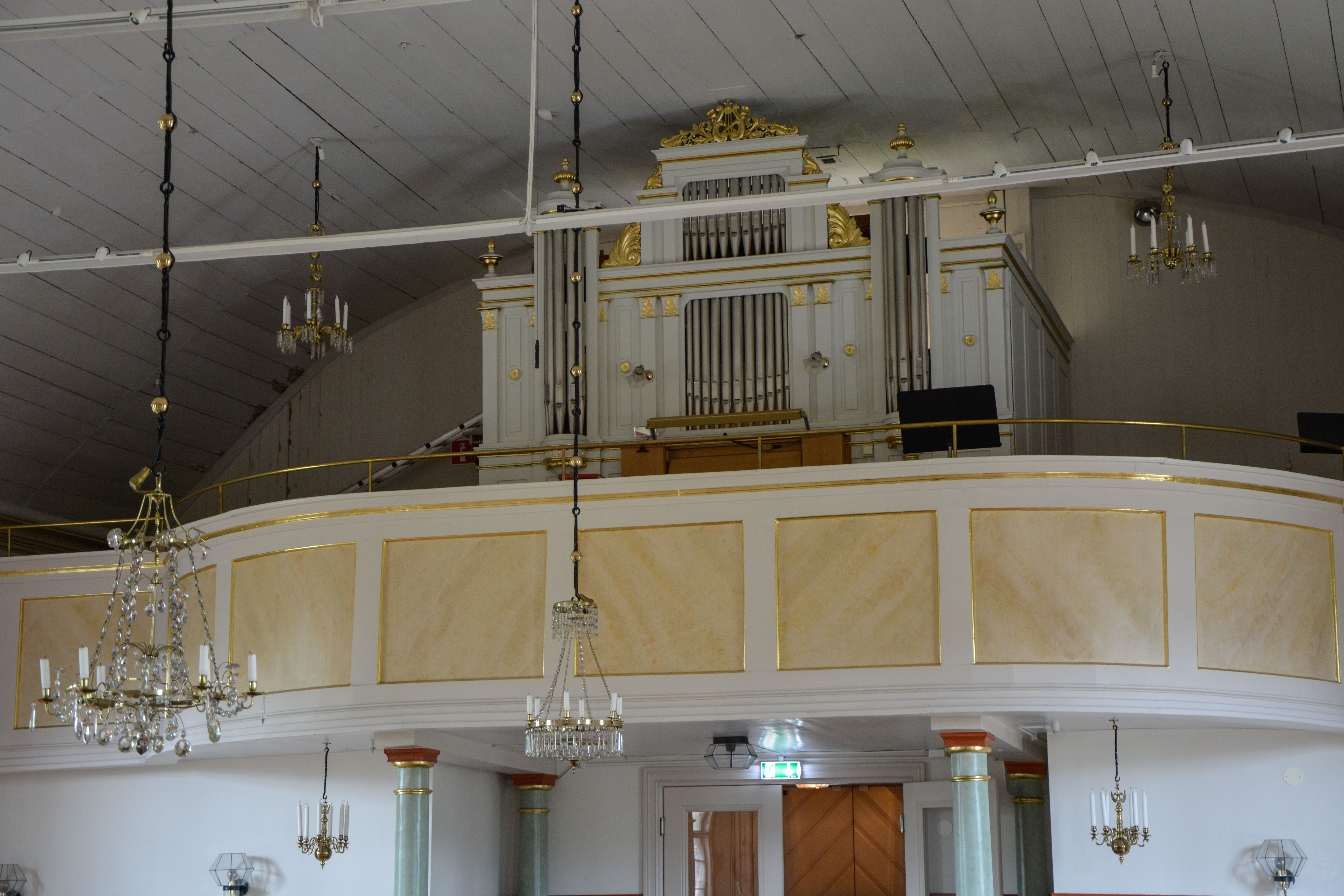 Gullabo Church. The organ